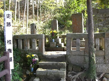 Tomb of Keian Genju(桂庵玄樹, 1427-1508) in Kagoshima:He was a Japanese Buddhist monk who sought to propagate Neo-Confucianism.